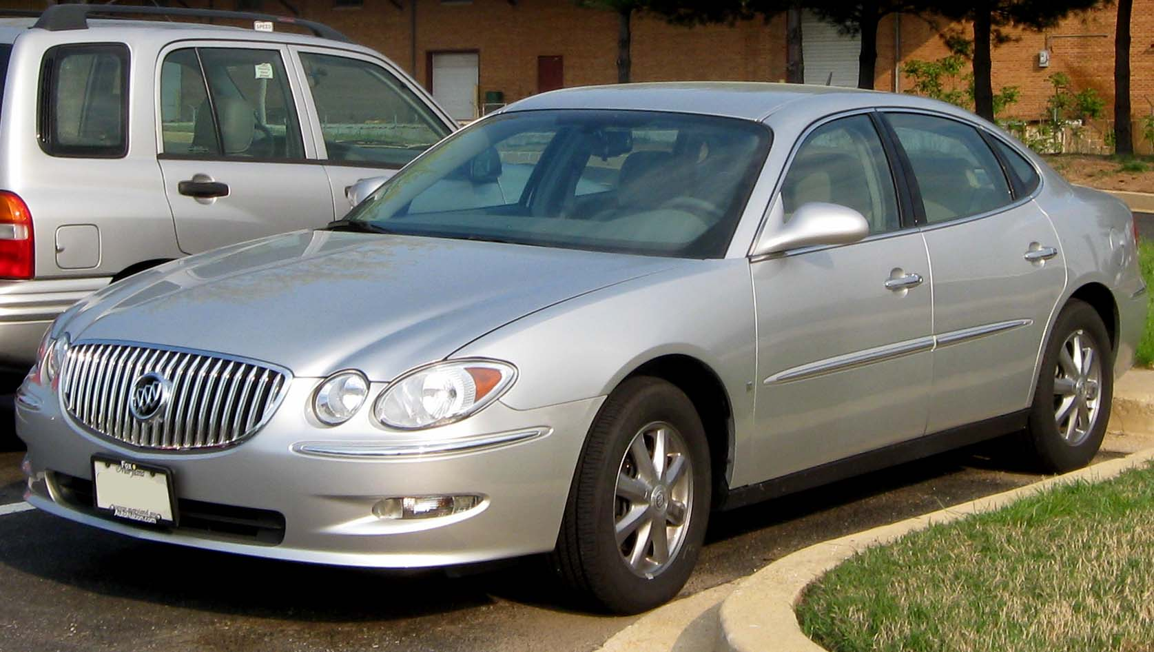 2008-2009 Buick LaCrosse photographed in Glen Burnie, Maryland, USA.